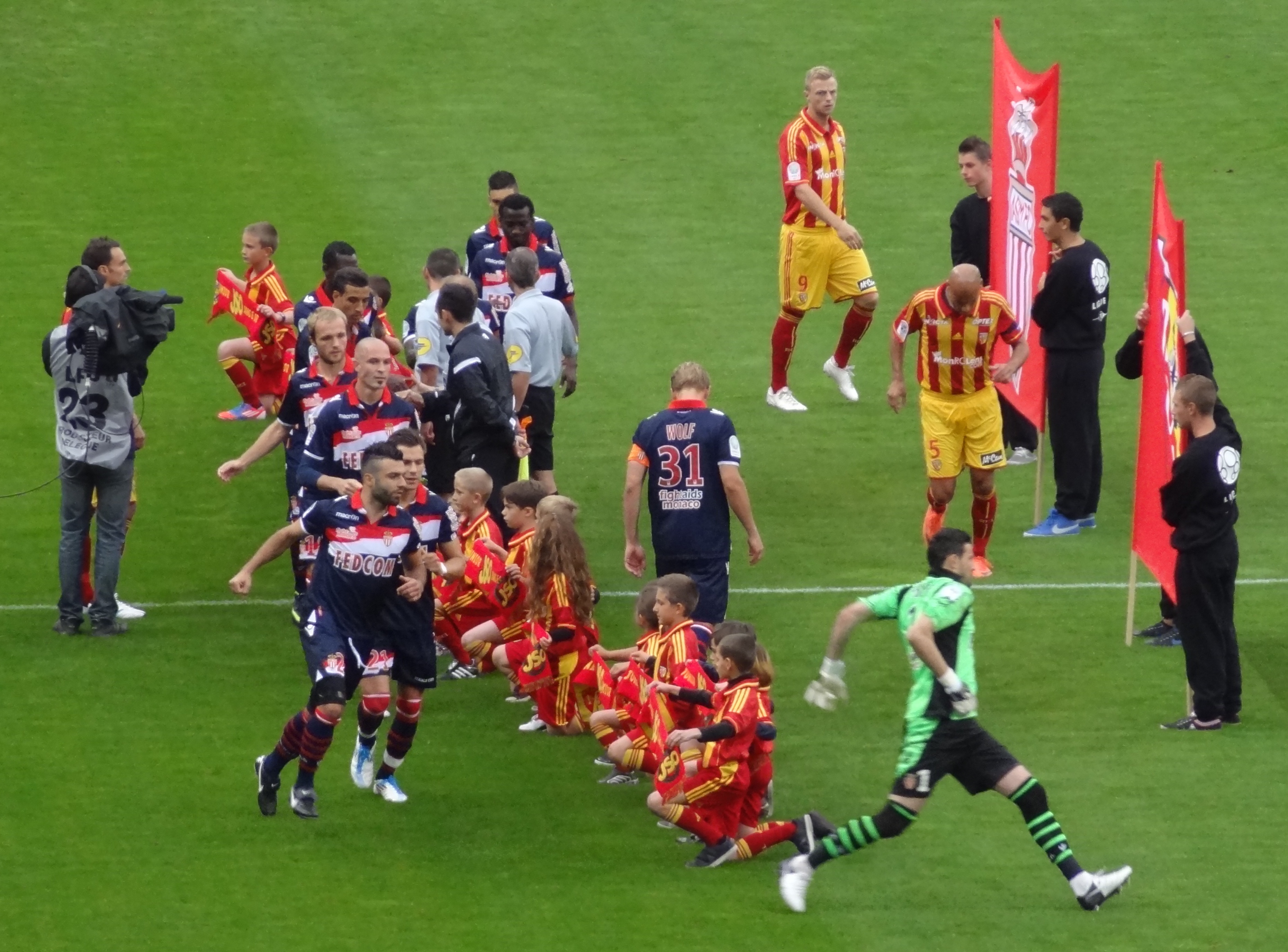 Lens - Monaco 2012